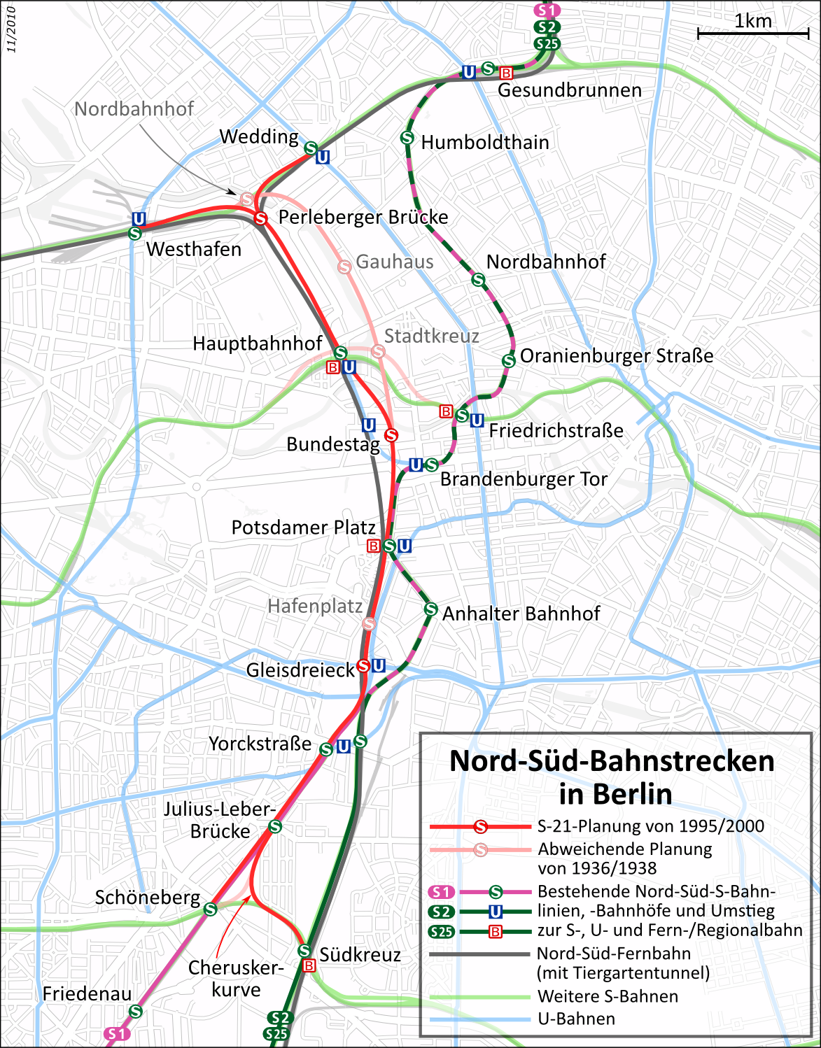 Situation of the planned second North-South-S-Bahn (project name: S21) in the current Berlin transportation network This map of Berlin was created from OpenStreetMap project data, collected by the community. This map may be incomplete, and may contain errors. Don't rely solely on it for navigation.